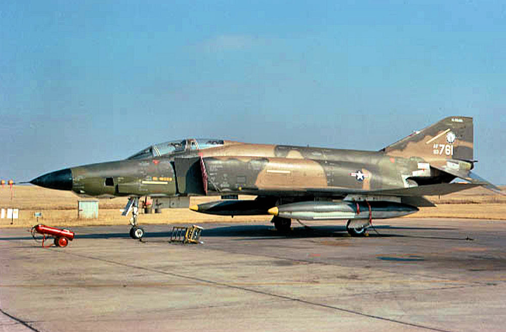 106th Tactical Reconnaissance Squadron McDonnell RF-4C-19-MC Phantom 63-7761 about 1972. Note the Vietnam War camouflage pattern and uncoded tail markings. Only "Alabama" tail stripe on tail fin.